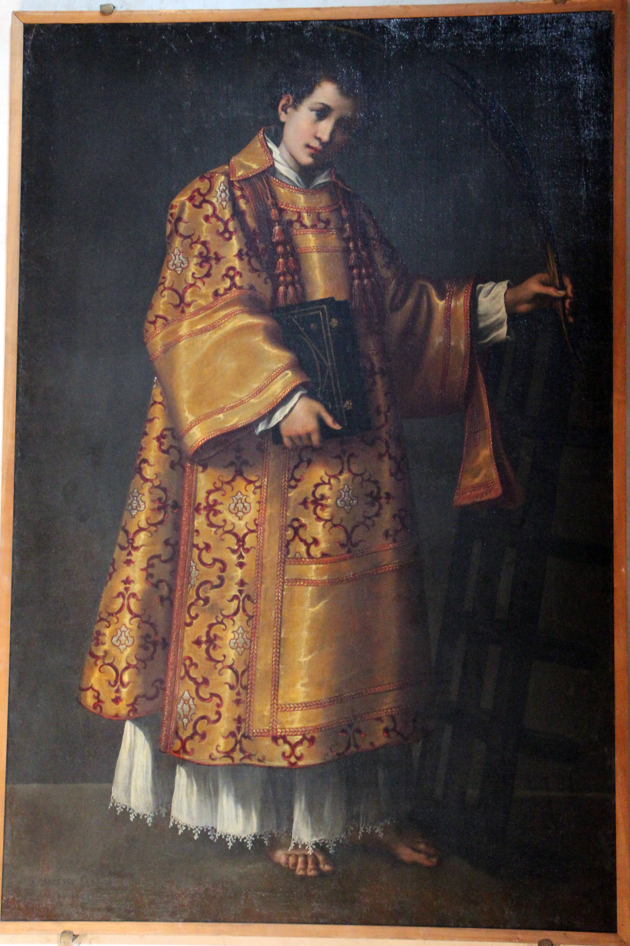 Santa Maria Maddalena de' Pazzi (Florence) - Interior